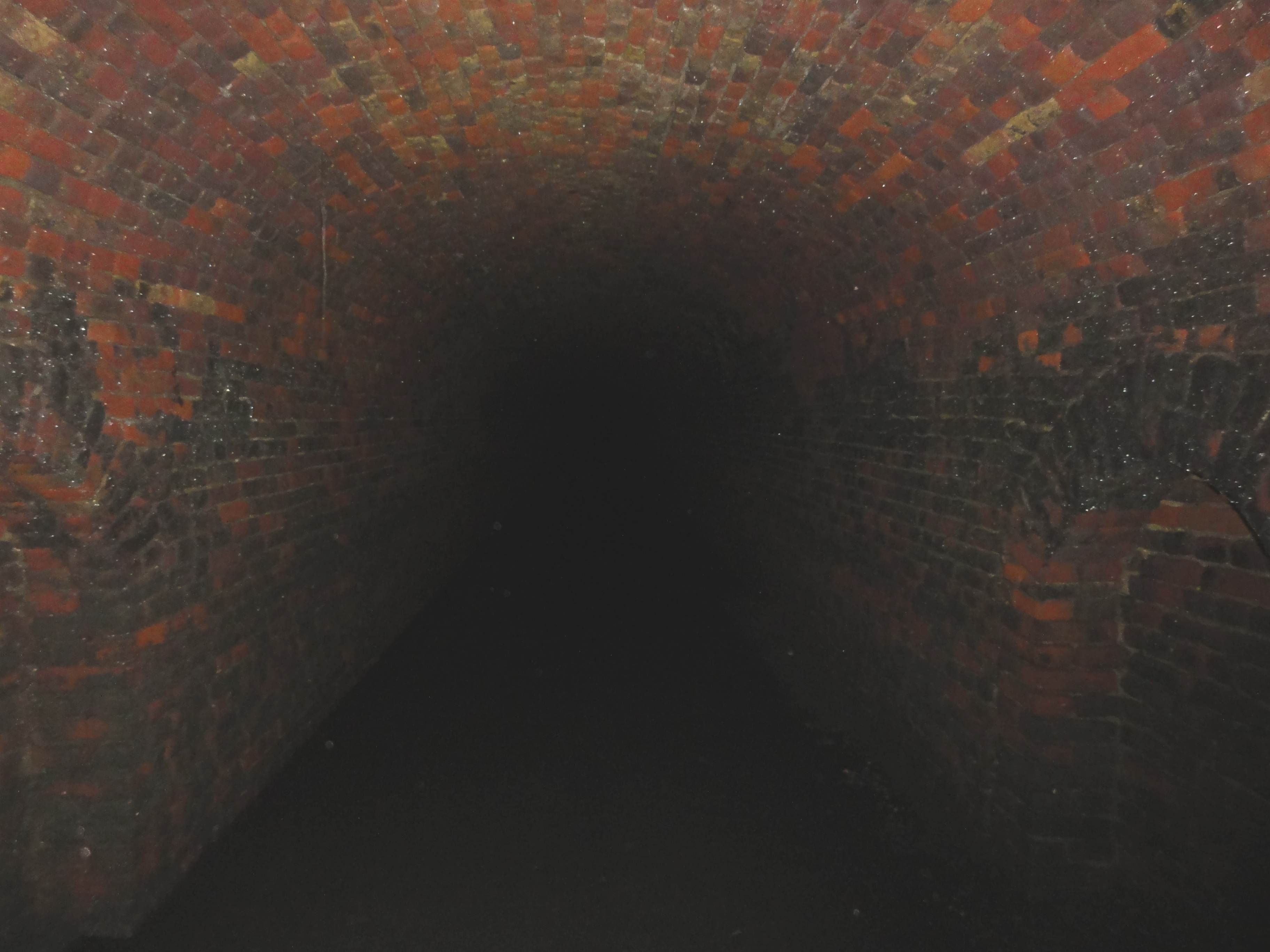 Depicted place: Q16010717